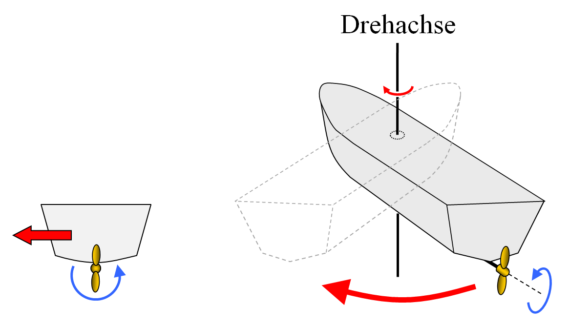 Effect of the propeller walk at a clockwise propeller when driving astern